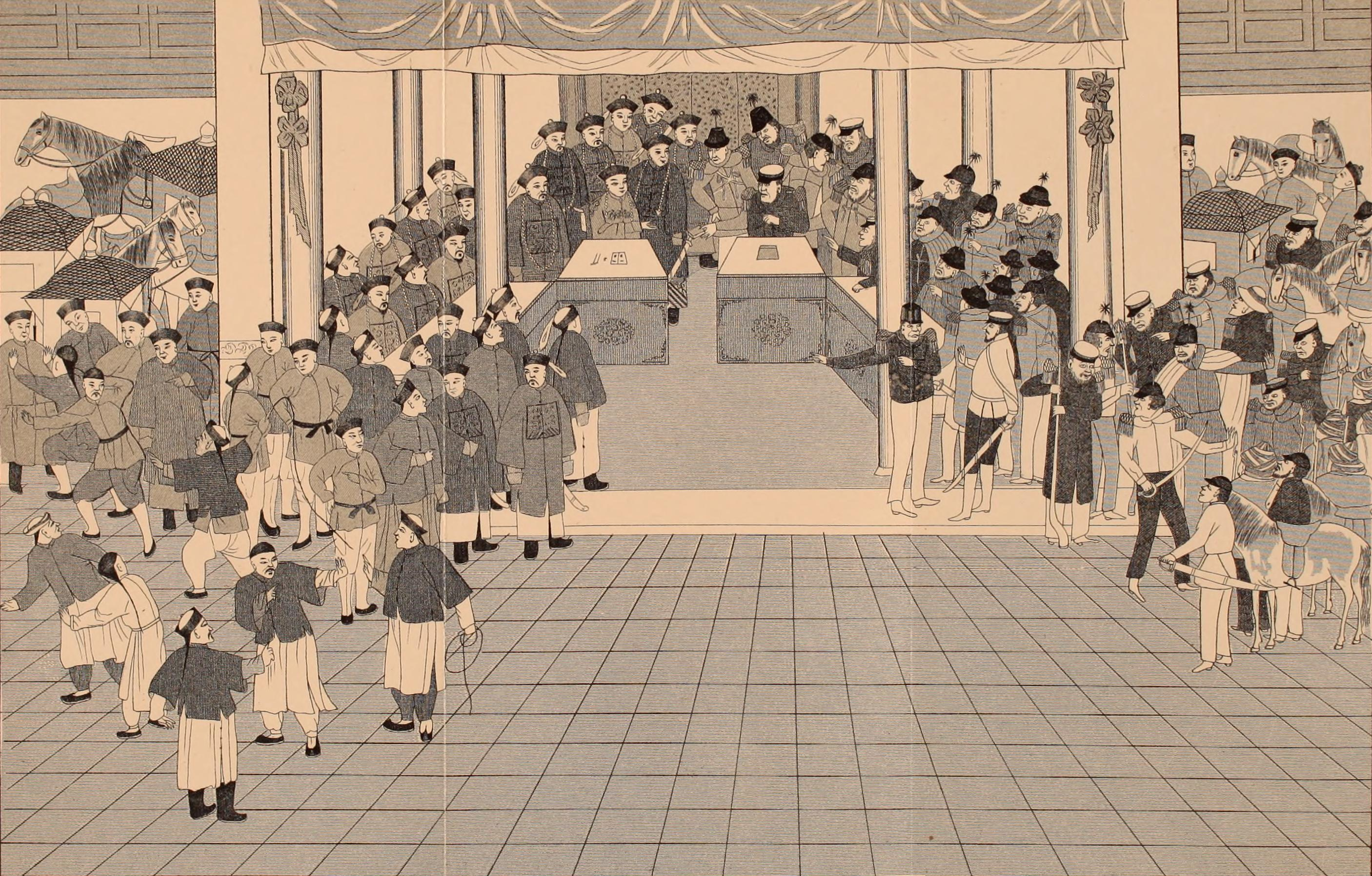 Signing of the Treaty of Peking by Lord Elgin and Prince Kung.